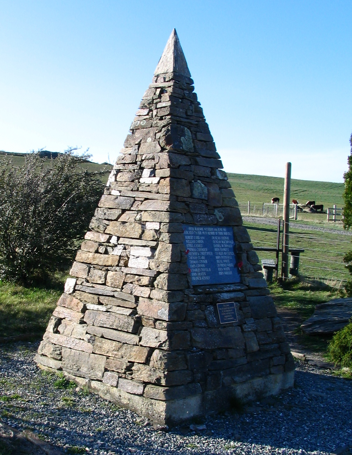 Cairn to the victims of the Hyde railway disaster, near Hyde, Otago, New Zealand.